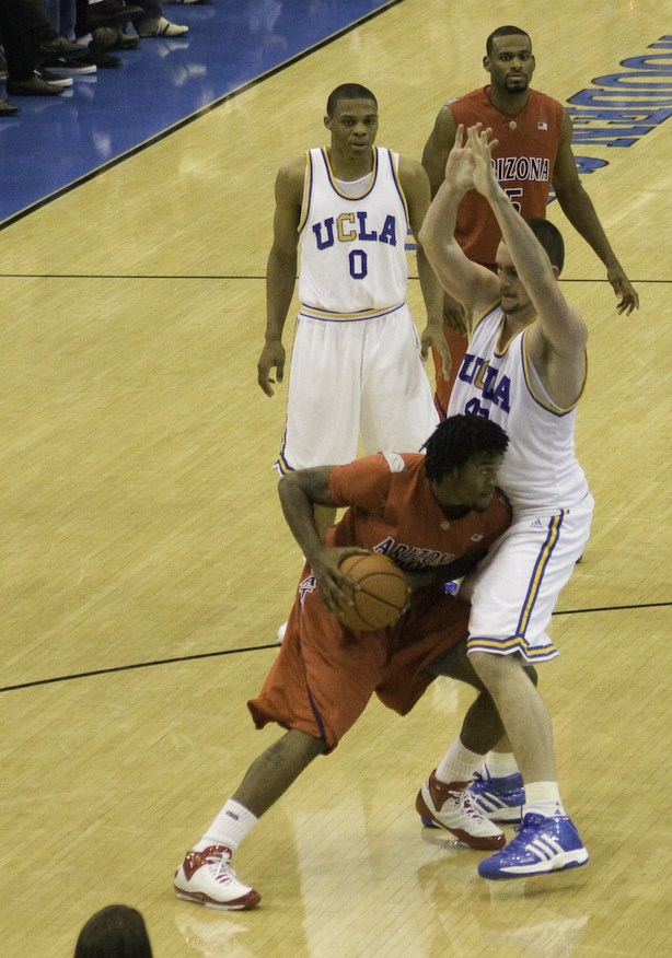 Kevin Love (UCLA) defending Jordan Hill (Arizona), in front of UCLA's Russell Westbrook and Arizona's Jawann McClellan.